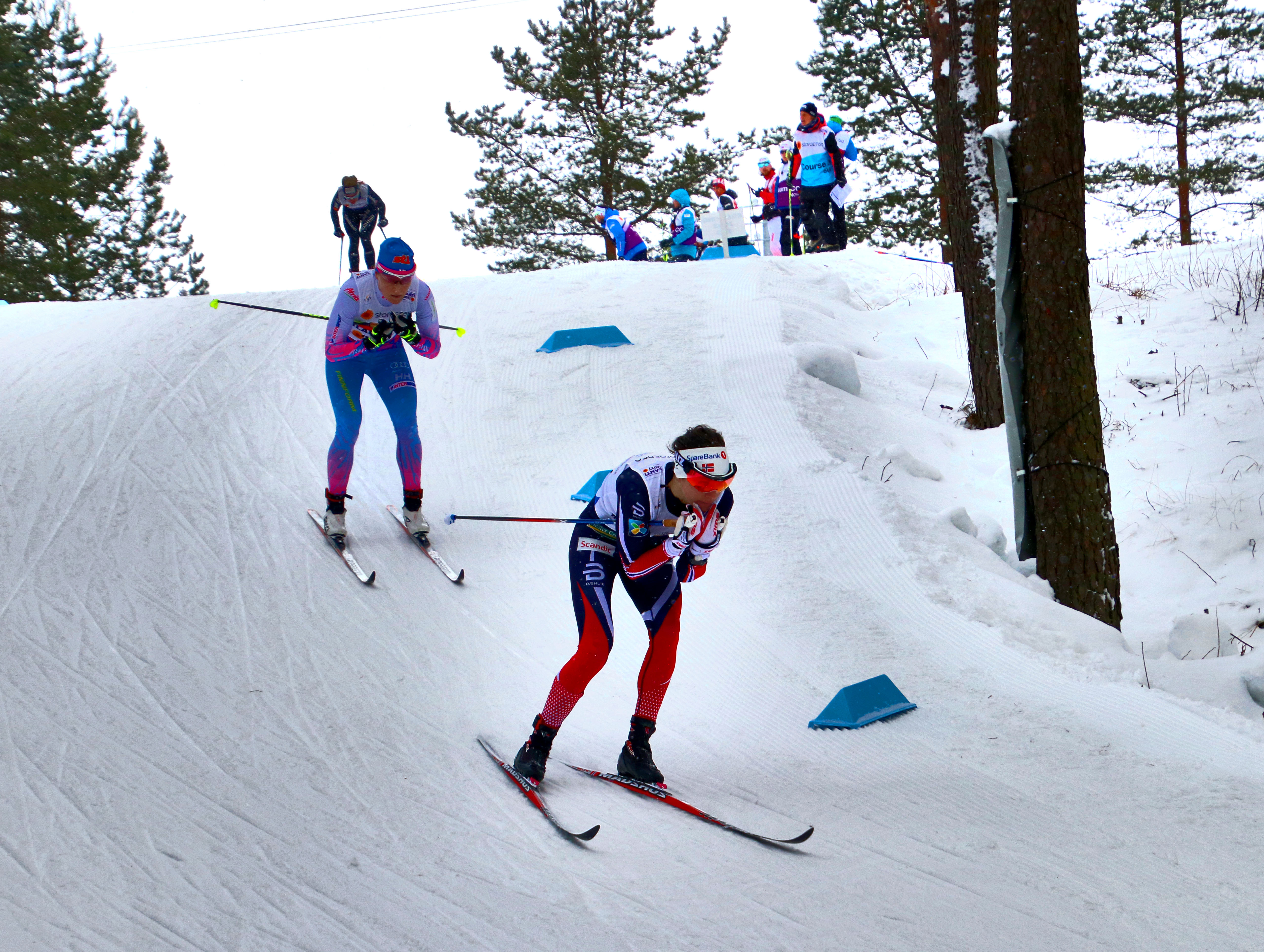 Lahti. At the cross-country skiing World Championships.